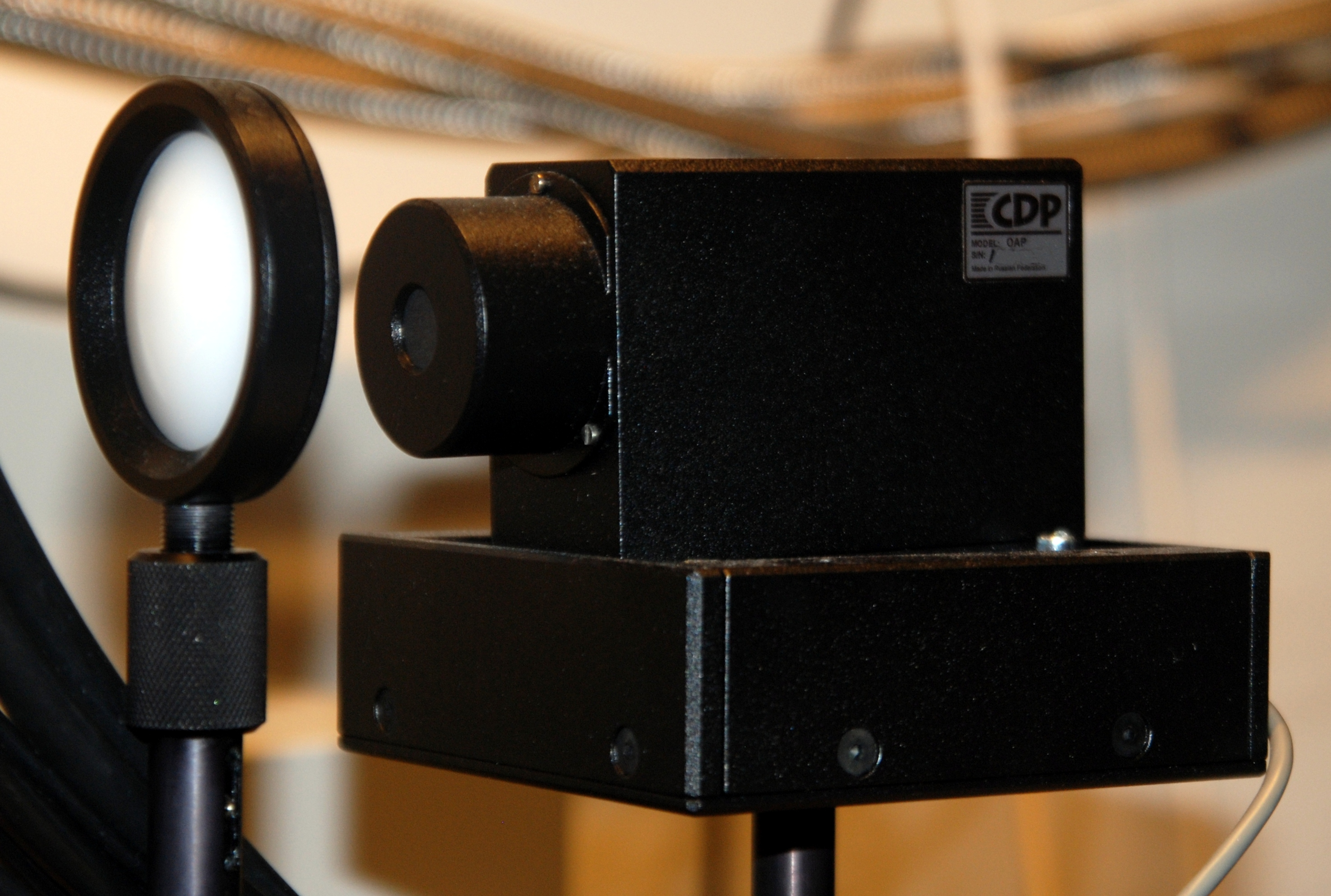 Golay cell with a Teflon lens, used as a THz detector at Stockholm University, Department of Physics. This description is disputed. It is more likely a LiTao3 crystal based detector. Please see File talk:Golay cell.jpg.